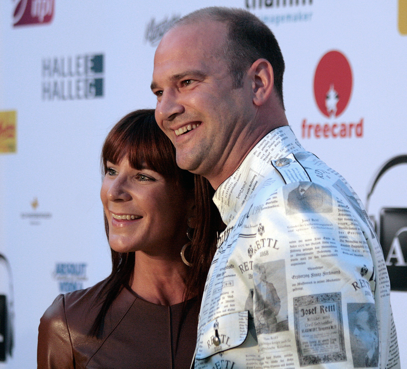 Udo Wenders at the Amadeus Austrian Music Award (Museumsquartier, Vienna)